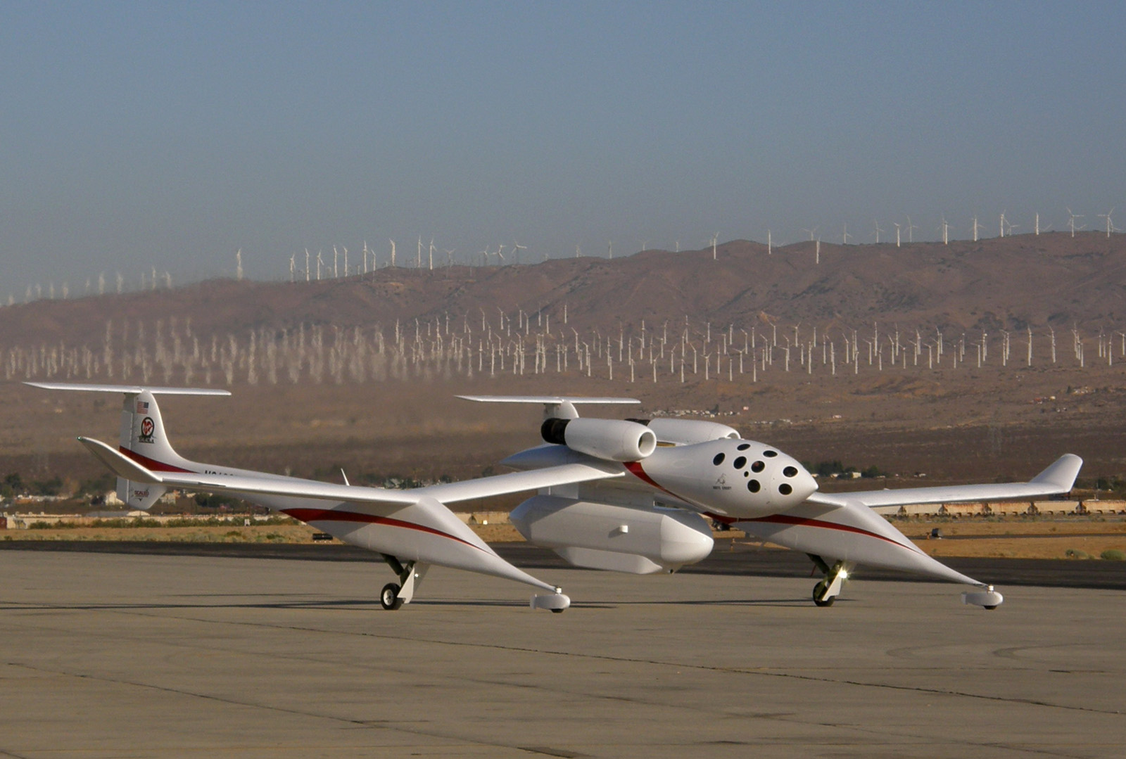 Scaled Composites' White Knight with a Northrop Grumman radar pod taxis for a test flight at Mojave, California